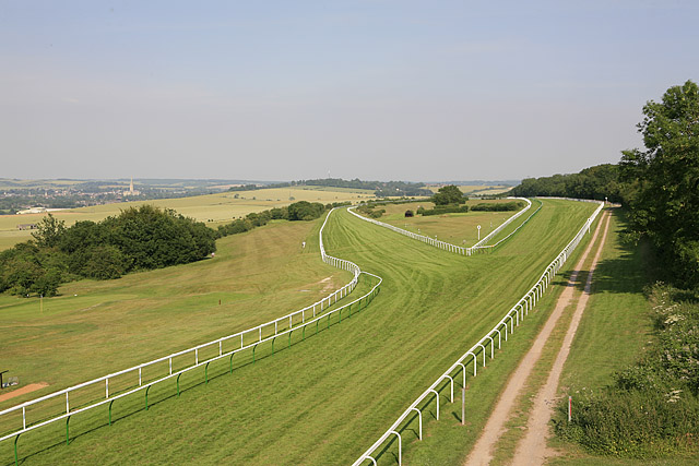 Salisbury Racecourse, Salisbury, UK. "This is the end remote from the stands which contains a loop. The race course shares land with the golf course. I photographed this from the top of a scaffolding tower presumably used for television cameras. Cathedral in distance."